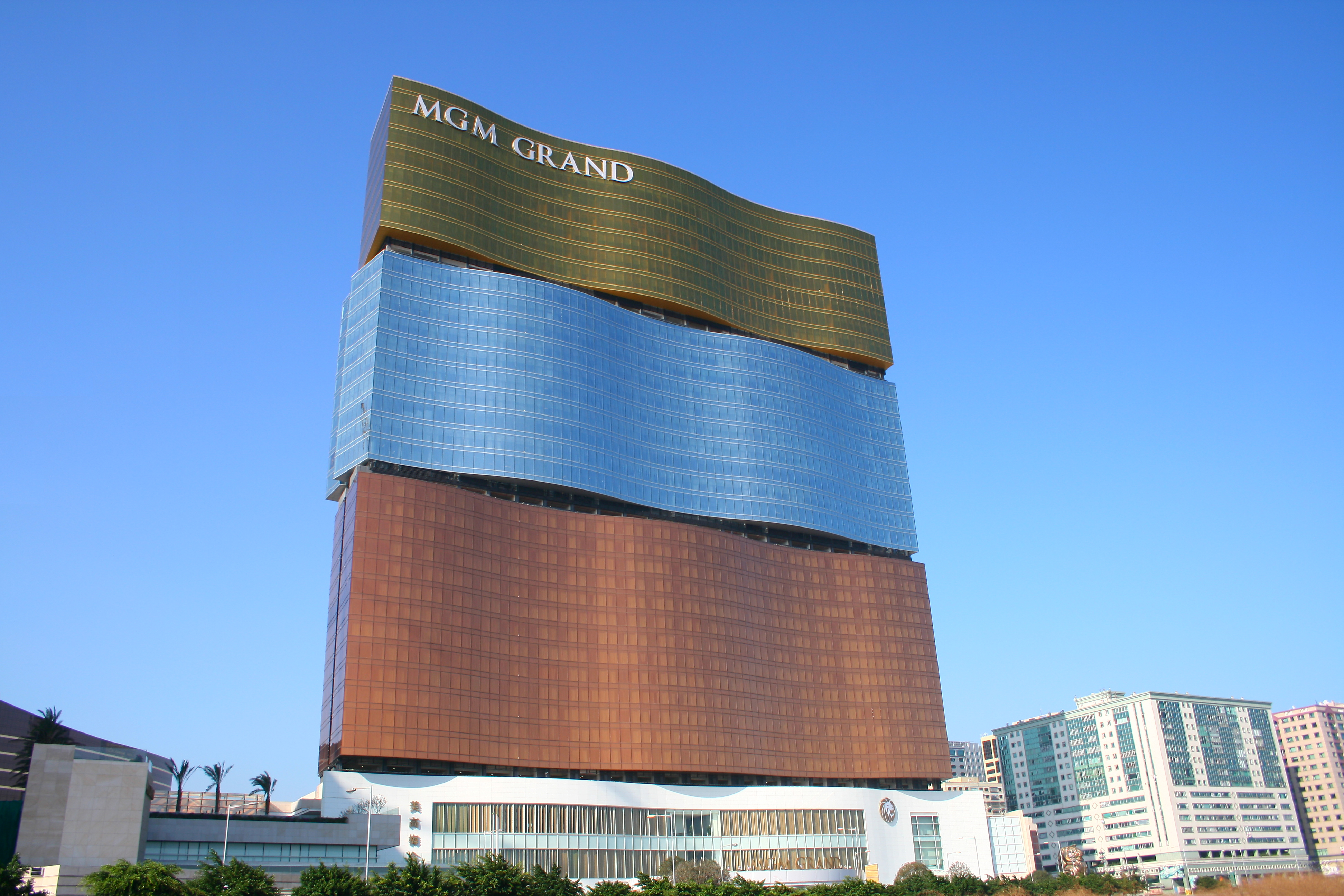 MGM Grand Macau